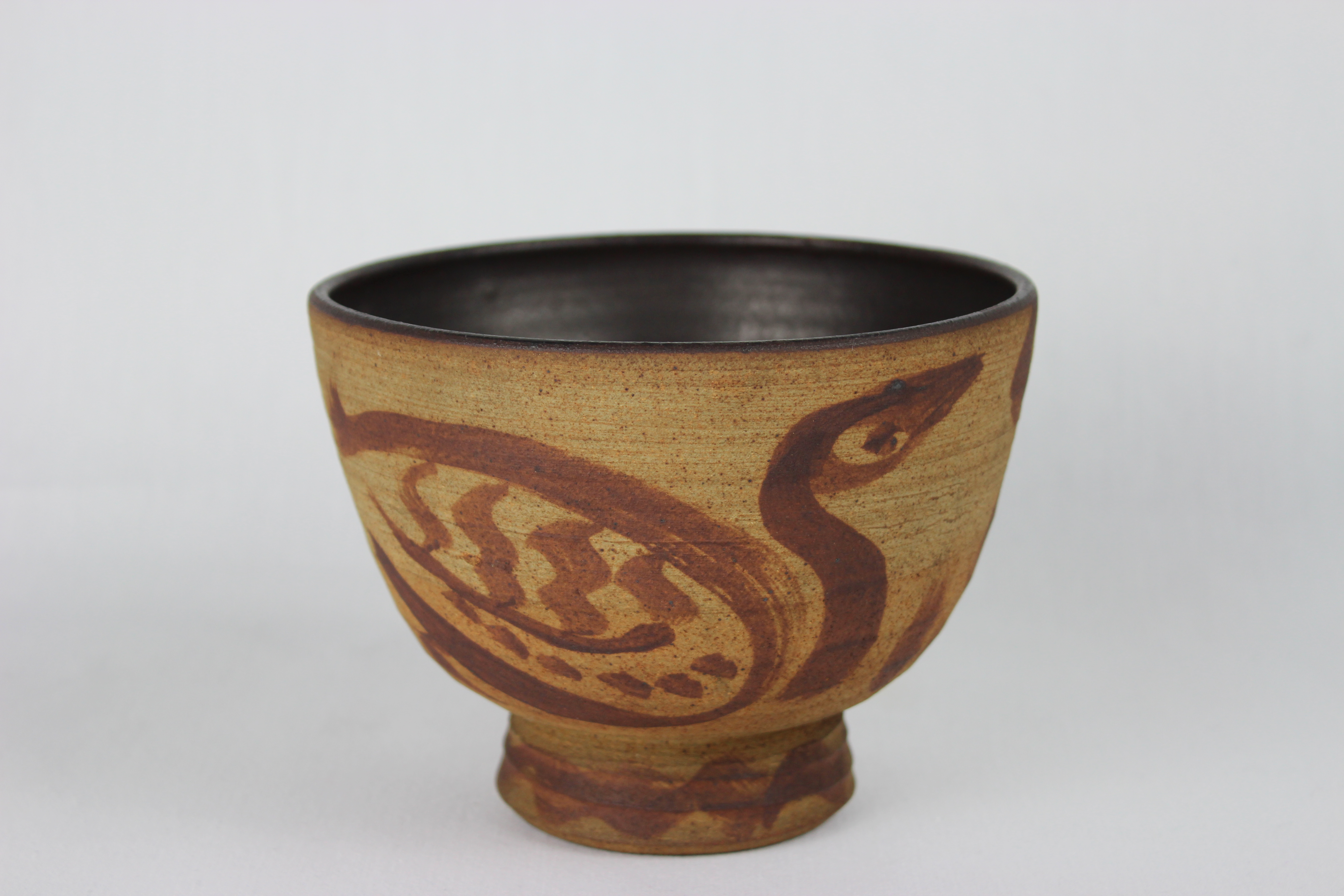 Bowl on foot ring, "Swimming Geese" brushed on exterior in iron oxide, black interior. From the W.A. Ismay Studio Ceramics Collection at York Art Gallery